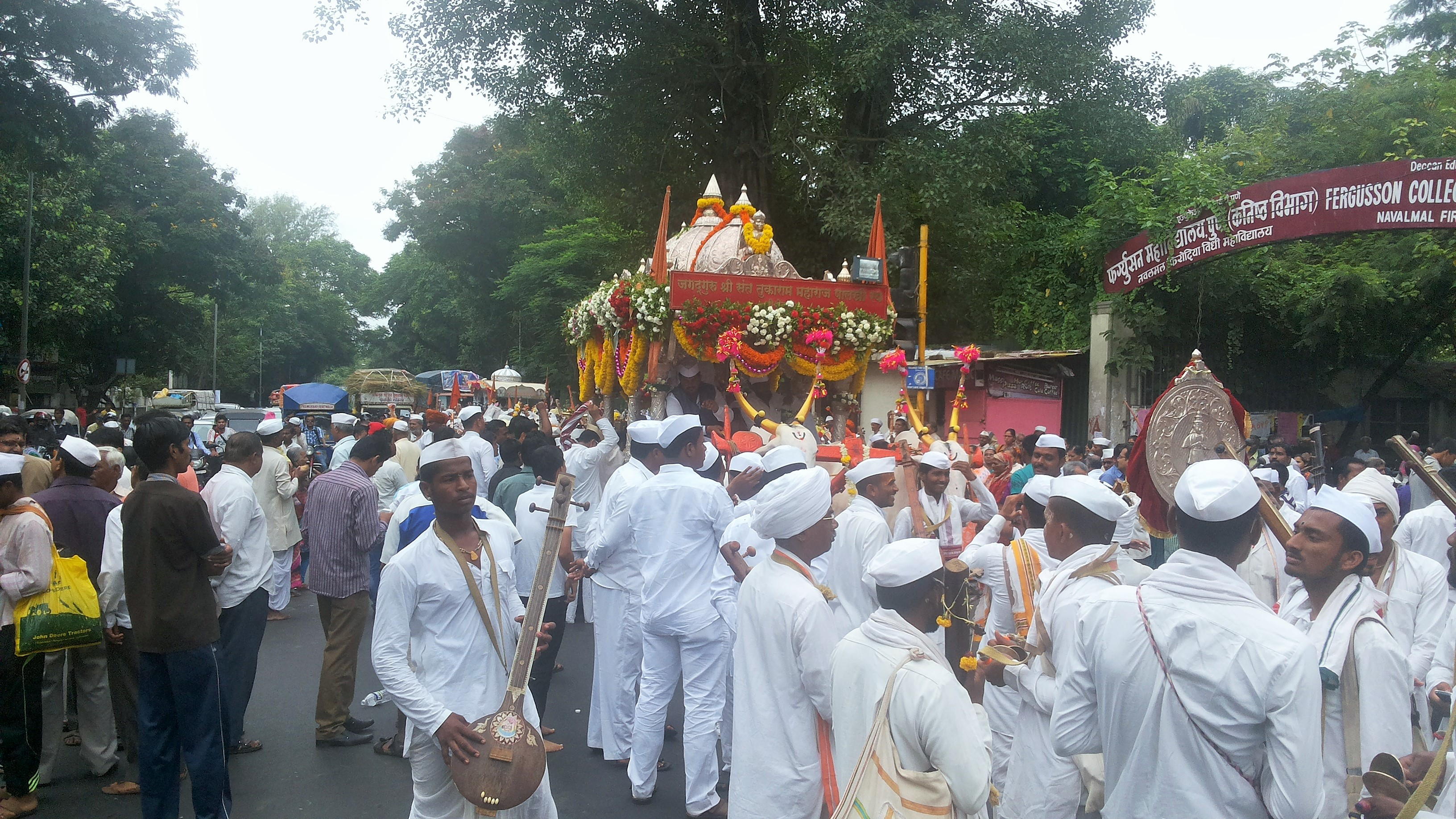 Tukaram Maharaj Palkhi